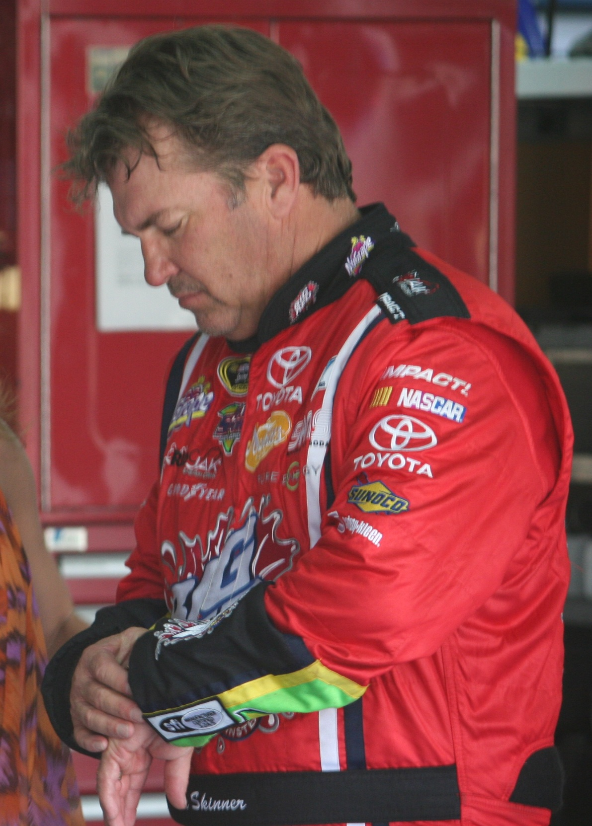 Mike Skinner at Charlotte Motor Speedway, May 2011.